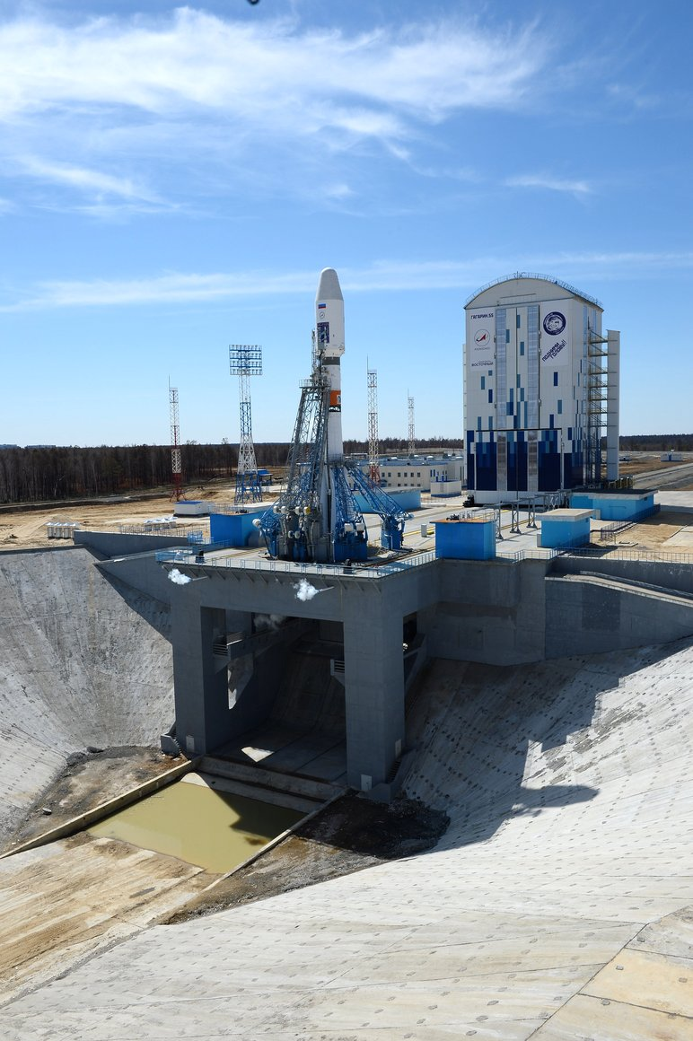 Soyuz-2.1a launch vehicle carrying three Russian spacecraft Mikhail Lomonosov, Aist-2D, and SamSat-218 at the launch pad at Vostochny Space Launch Centre.